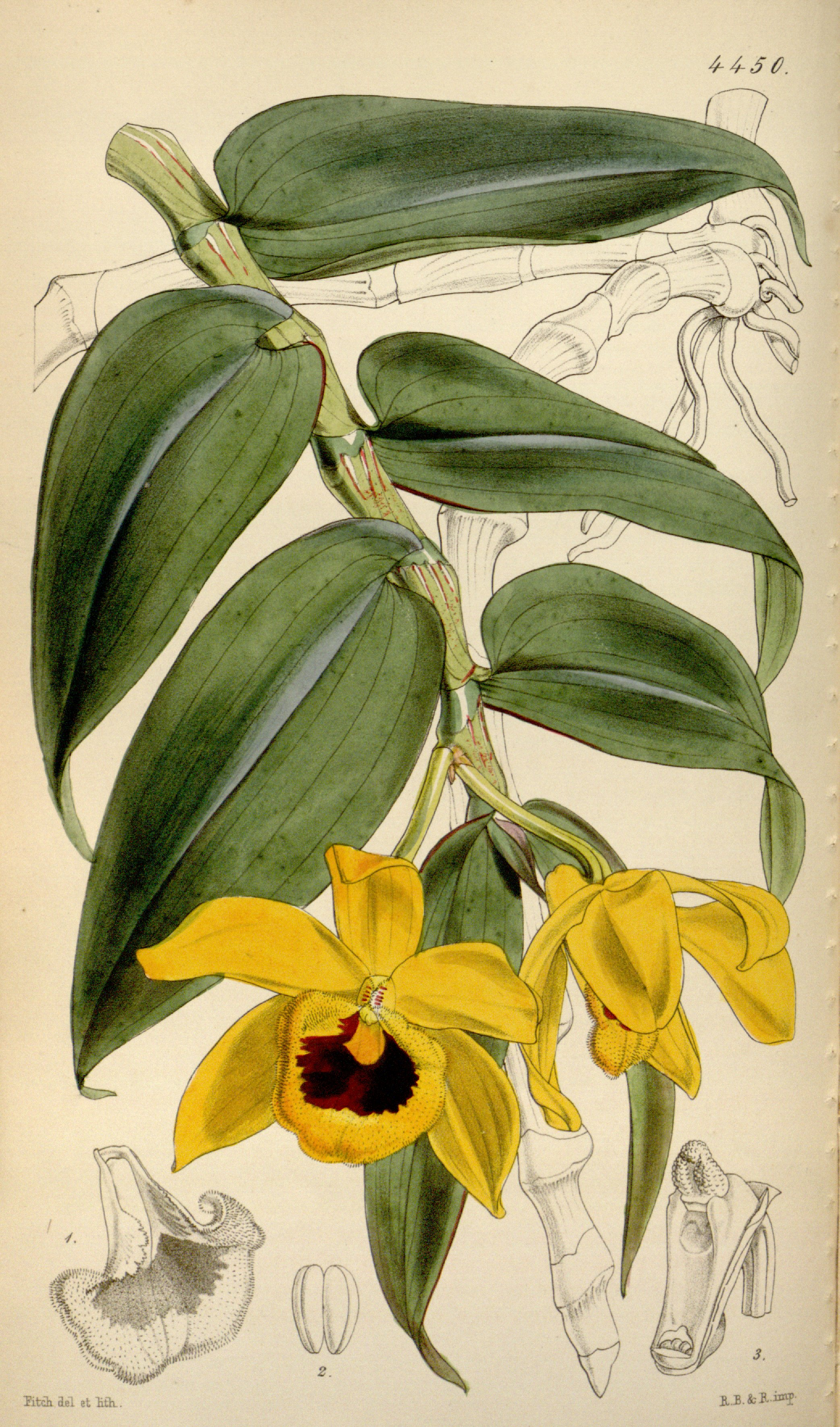 Illustration of Dendrobium ochreatum (as syn. Dendrobium cambridgeanum)